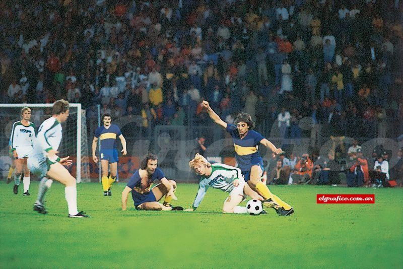 Salinas in action v. Borussia Monchengladbach.